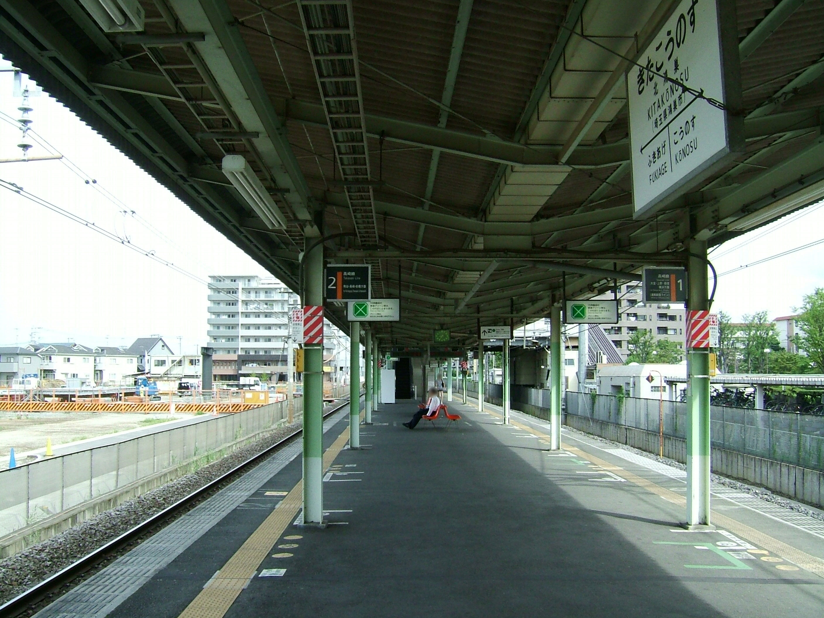 Kita-Kōnosu Station platform (East Japan Railway Takasaki Line)